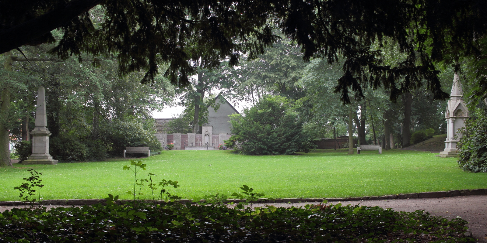 Park of former town hall in Achim, Germany.